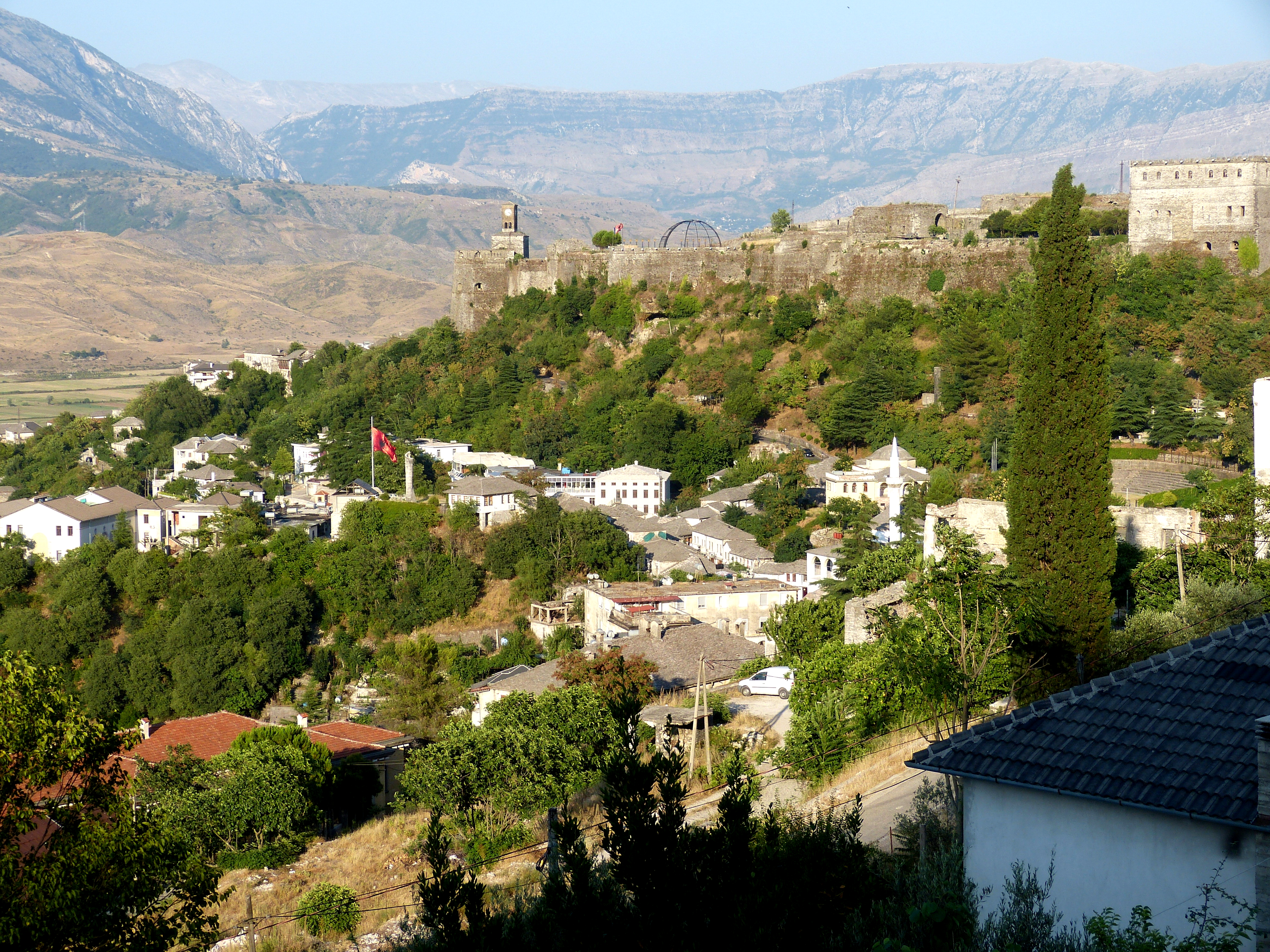 Gjirokastër ( Albania ). View to the old town and fortress.